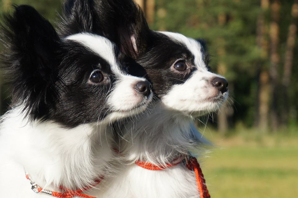 two sisters with white-black color.